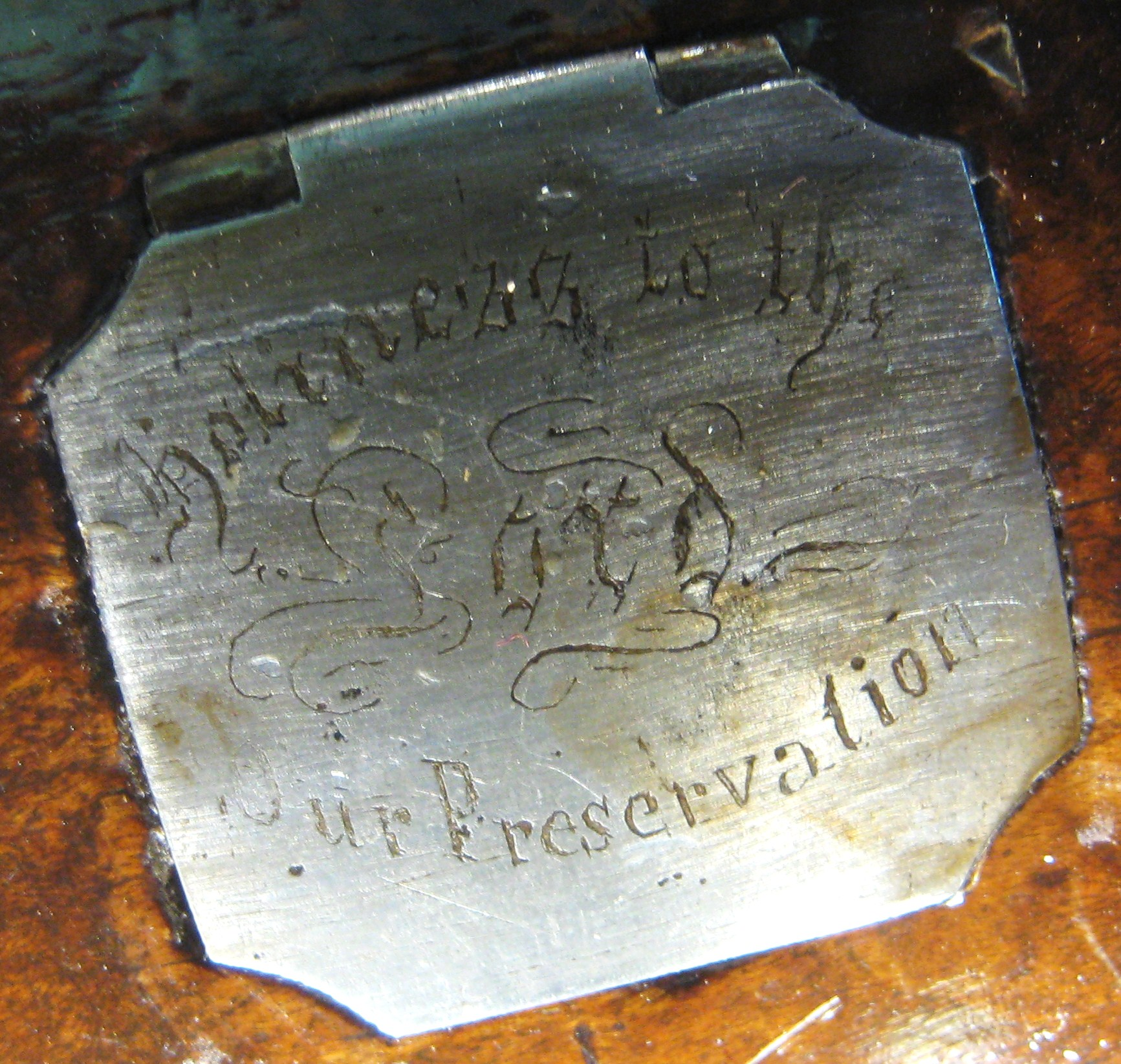 A closeup of the label on a Nauvoo period Browning gun (1842-1846), stating: "Holiness to the Lord - Our Preservation."